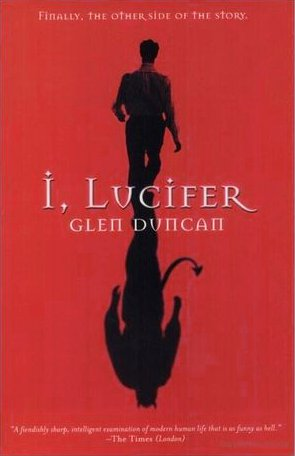 Cover of 'I, Lucifer', book by Glen Duncan